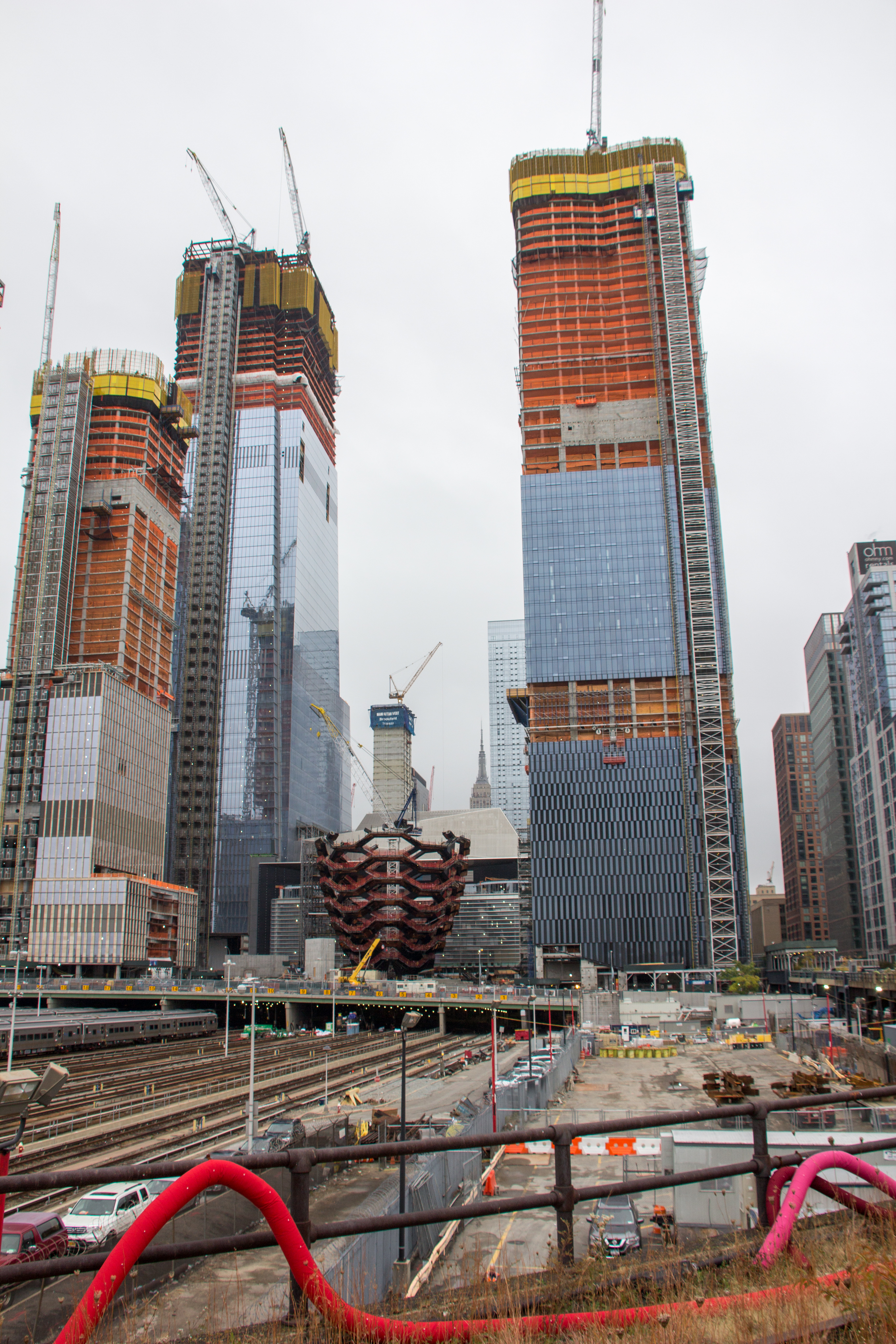 Hudson Yards Redevelopment Project and tracks of West Side Yards in New York City, with communication structure "The Vessel", construction works in November 2017, USA. View from former High Line railway.